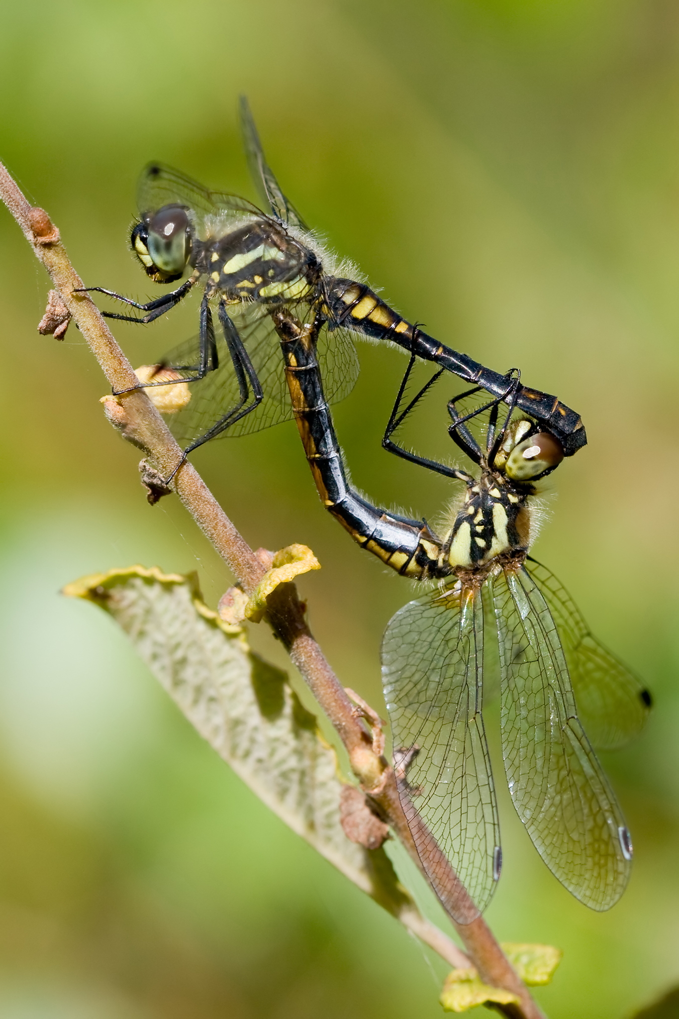 Mating wheel of Black Darters (Sympetrum danae) in the Ahlenmoor, a peatland in northern Lower Saxony, Germany. The upper animal is the male.